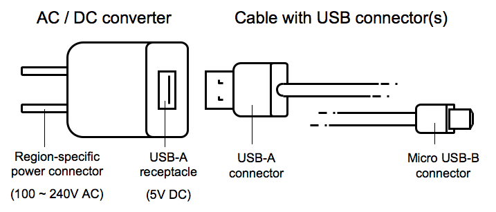 simple component diagram of the EU's common External Power Supply